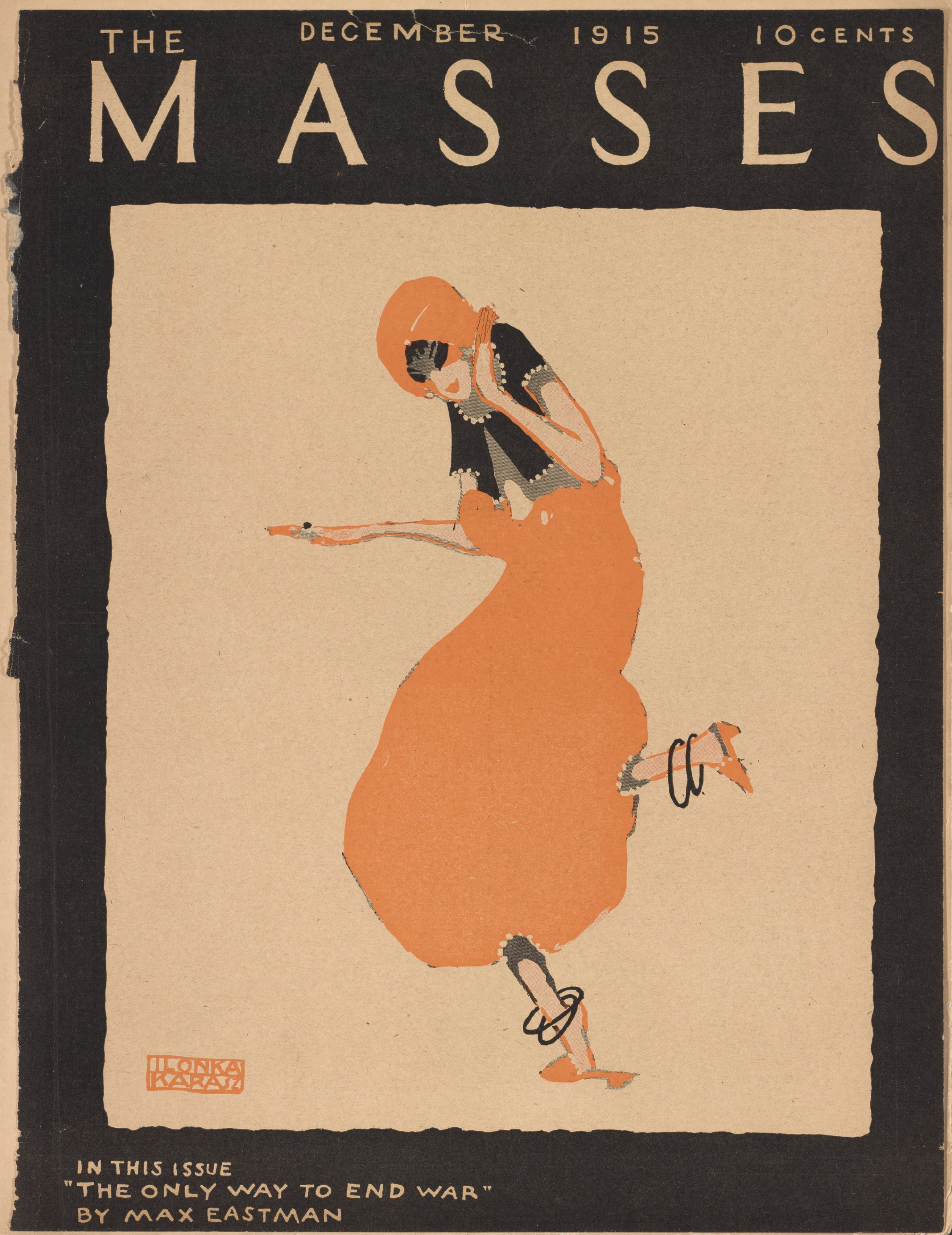 Drawing by Ilonka Karasz.